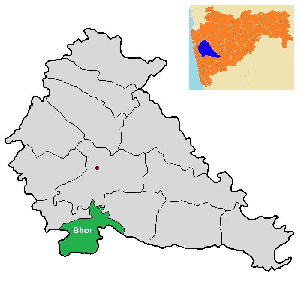 Bhor tehsil in Pune district